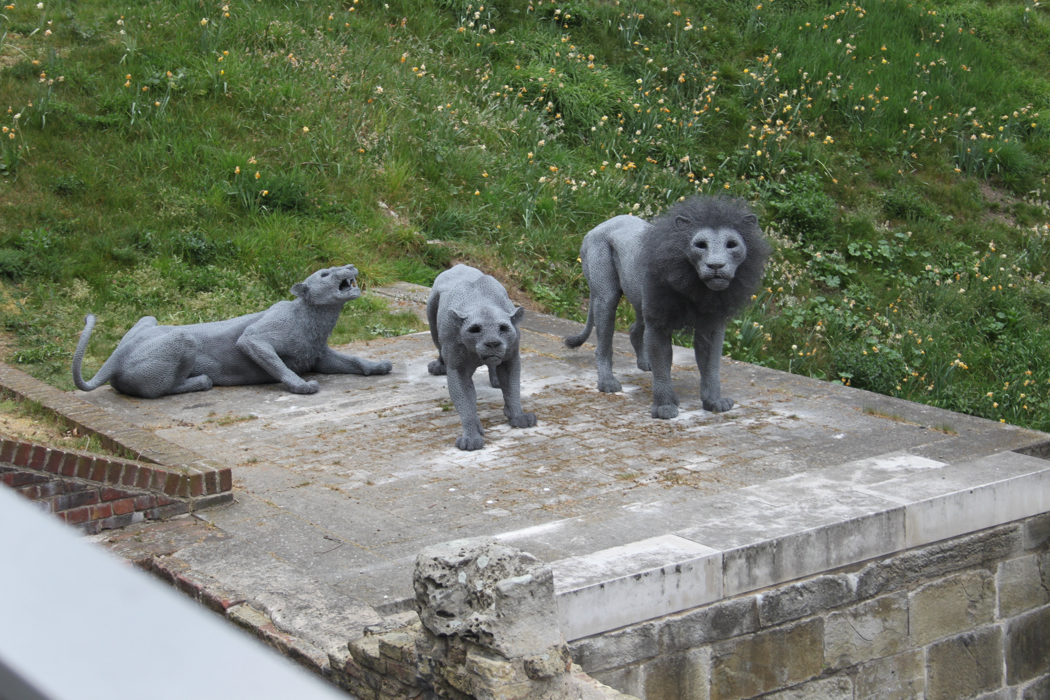 Wire models of animals at the Tower of London